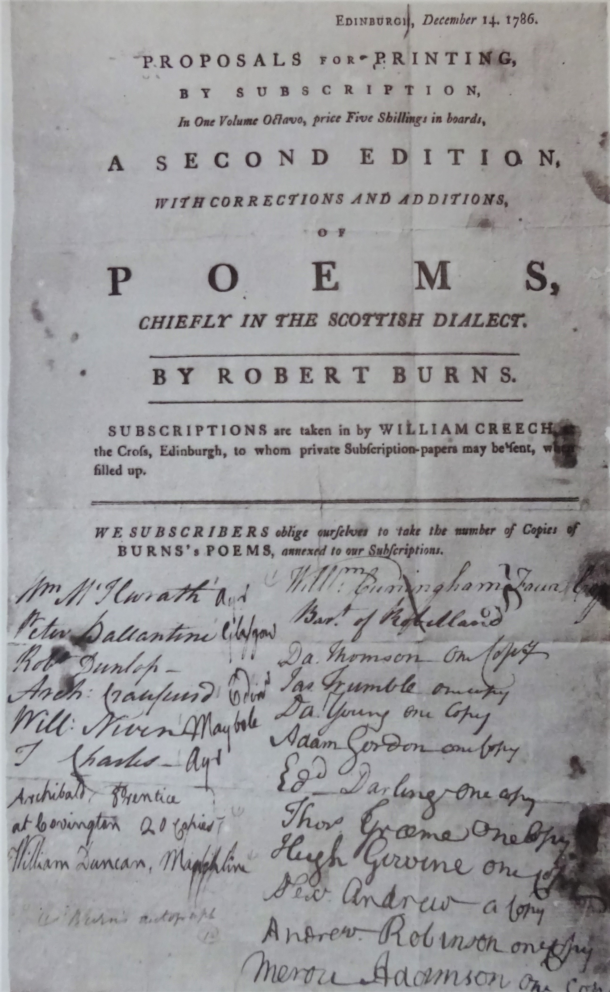 The 1786 Advertisement for the Publication of Burns's 1787 Edinburgh Edition. With subscribers.